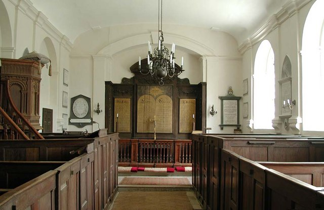 Church of England parish church of St Katherine, Chiselhampton, Oxfordshire: view from the nave towards the chancel